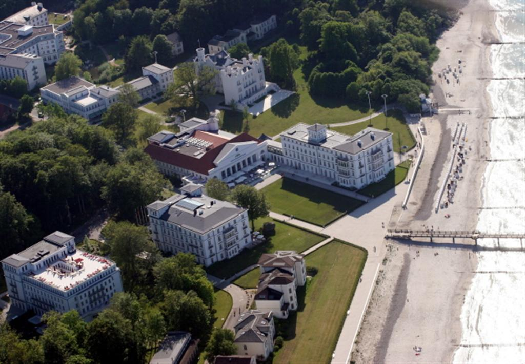 Grand Hotel Heiligendamm aerial view, 2013